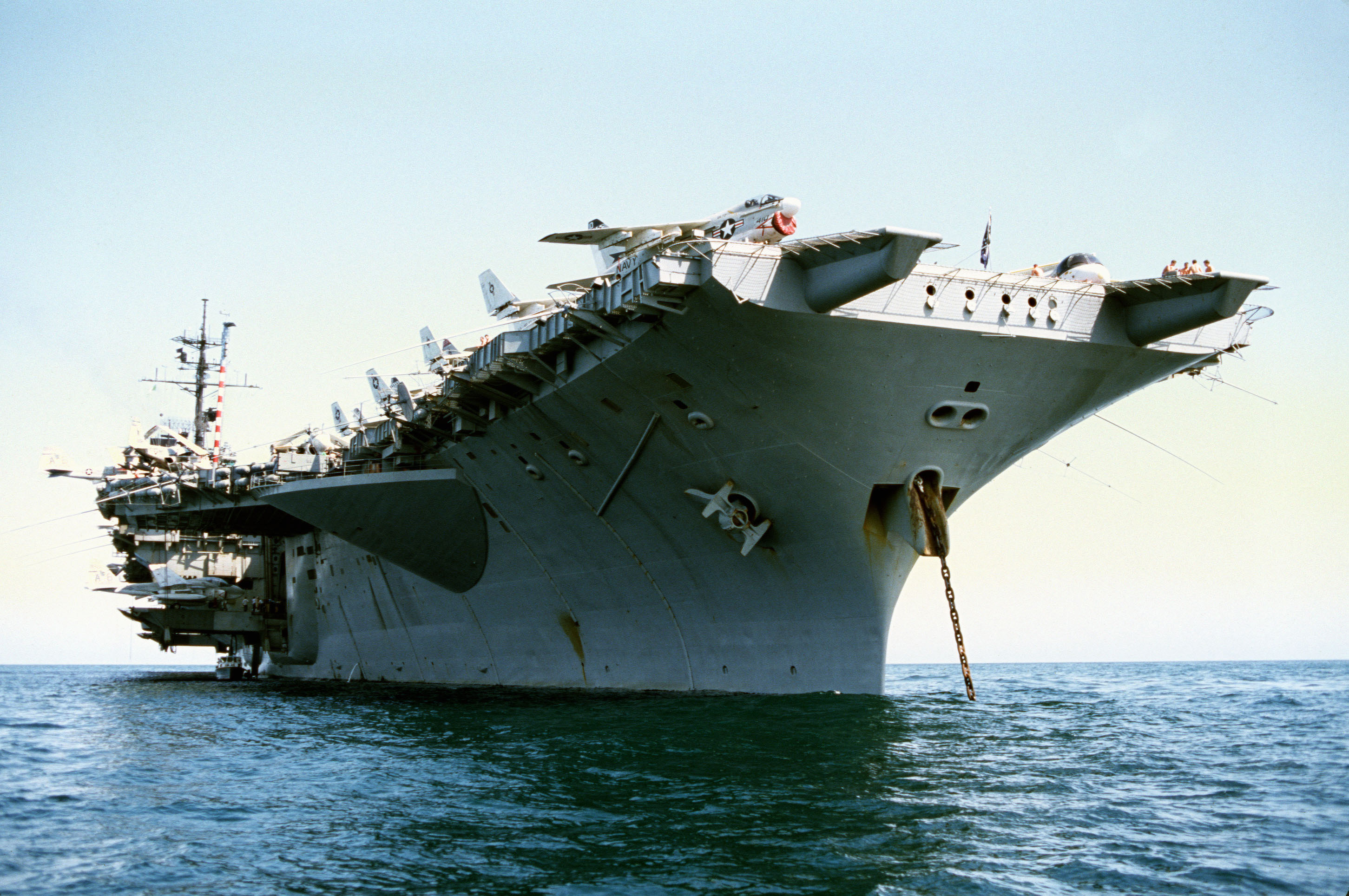 A starboard bow view of the aircraft carrier USS AMERICA (CV 66).